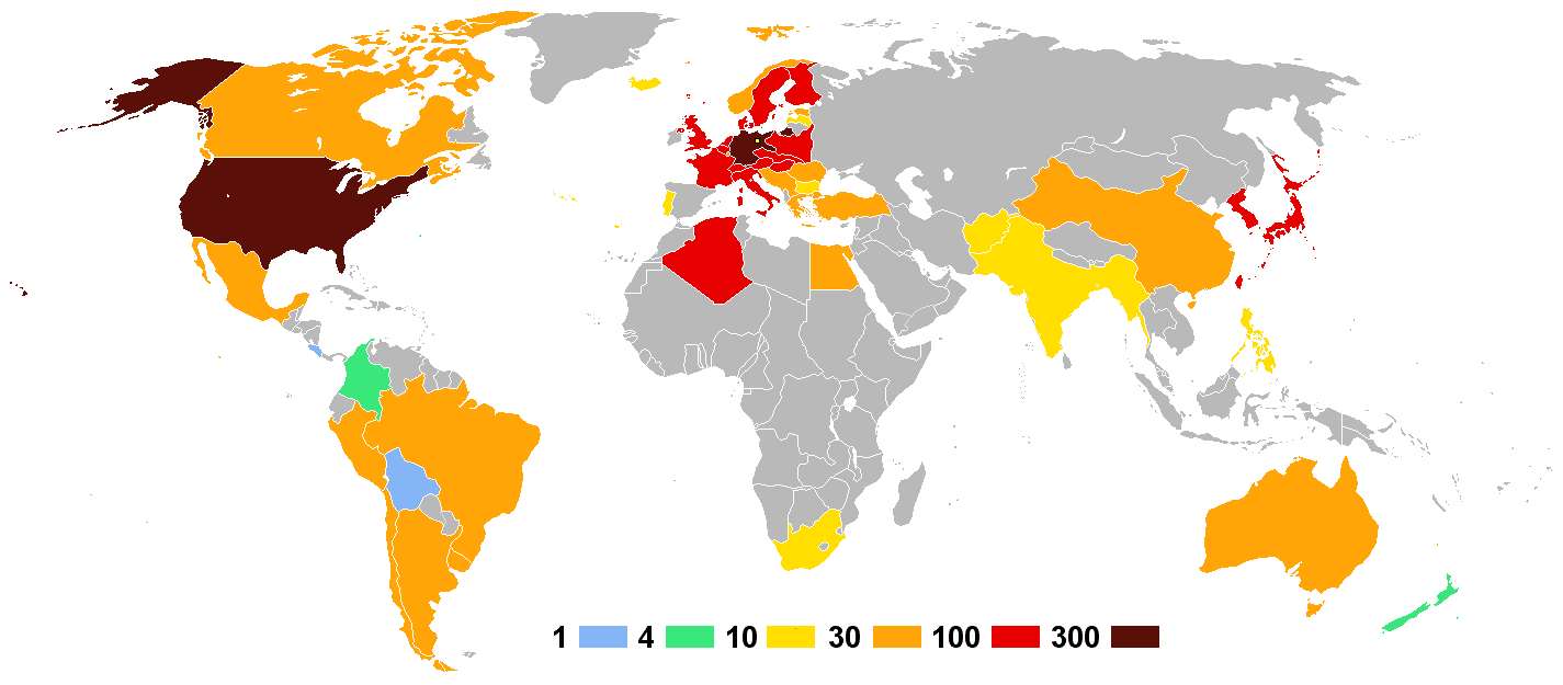 Countries that participated in the 1936 Summer Olympics by number of athletes.